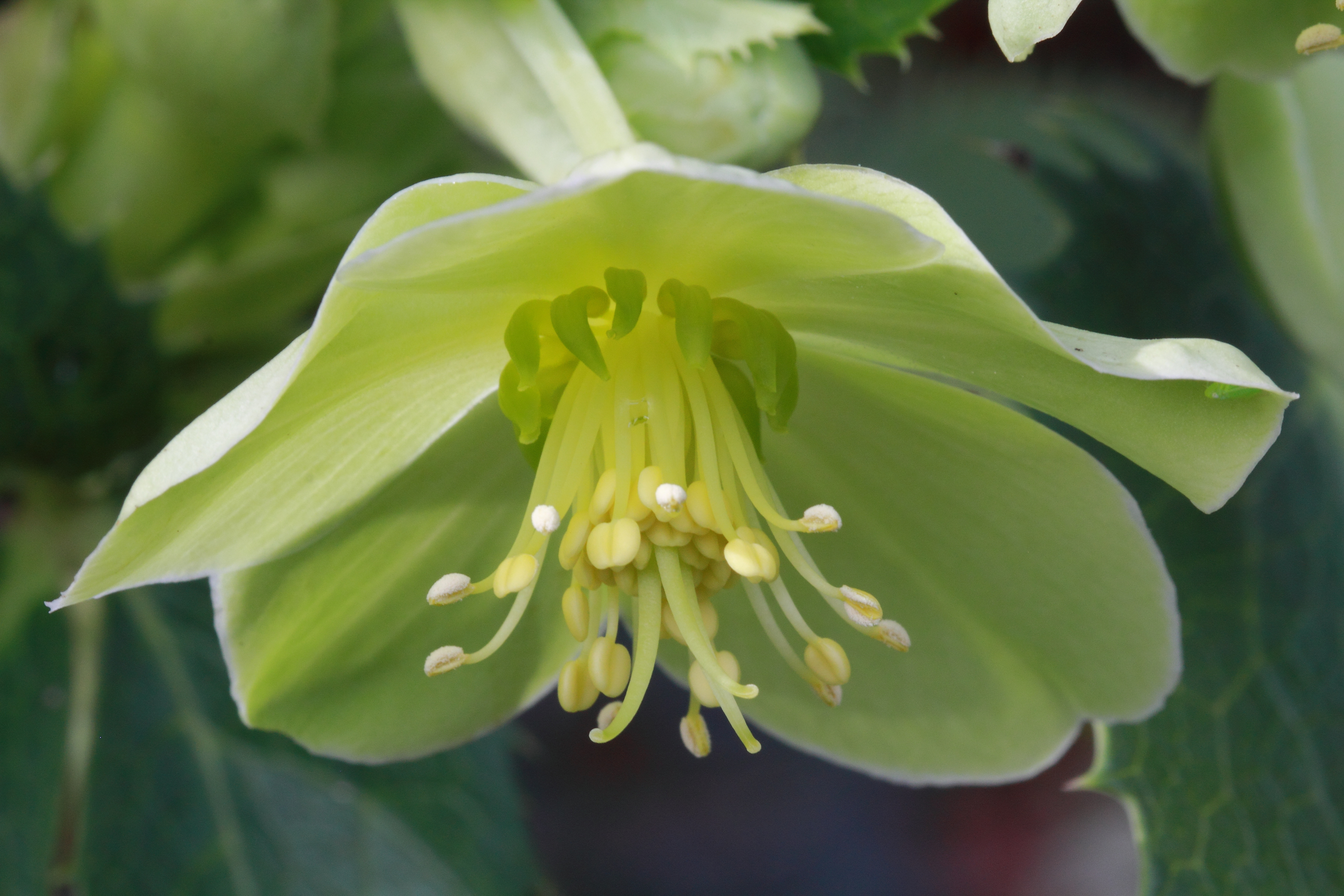 A flower of Helleborus argutifolius showing the 5 petal-like sepals, the whorl of small petals transformed into nectaries, the stamens and the styles.